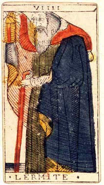 An original card from the tarot deck of Jean Dodal of Lyon, a classic Tarot of Marseilles deck which dates from 1701-1715.